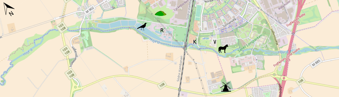 Map of the recreational area "Höjeådalen" between the municipalities of Lund and Staffanstorp in the region of Skåne at the south tip of Sweden.